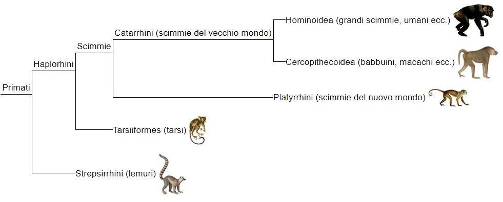 Phylogeny of primates